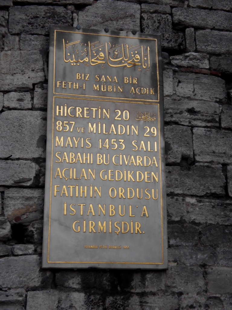 Edirnekapi1